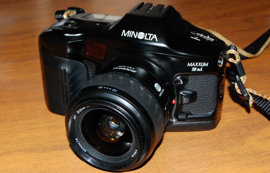 Minolta Maxxum 9xi, with Zoom xi 28-80.